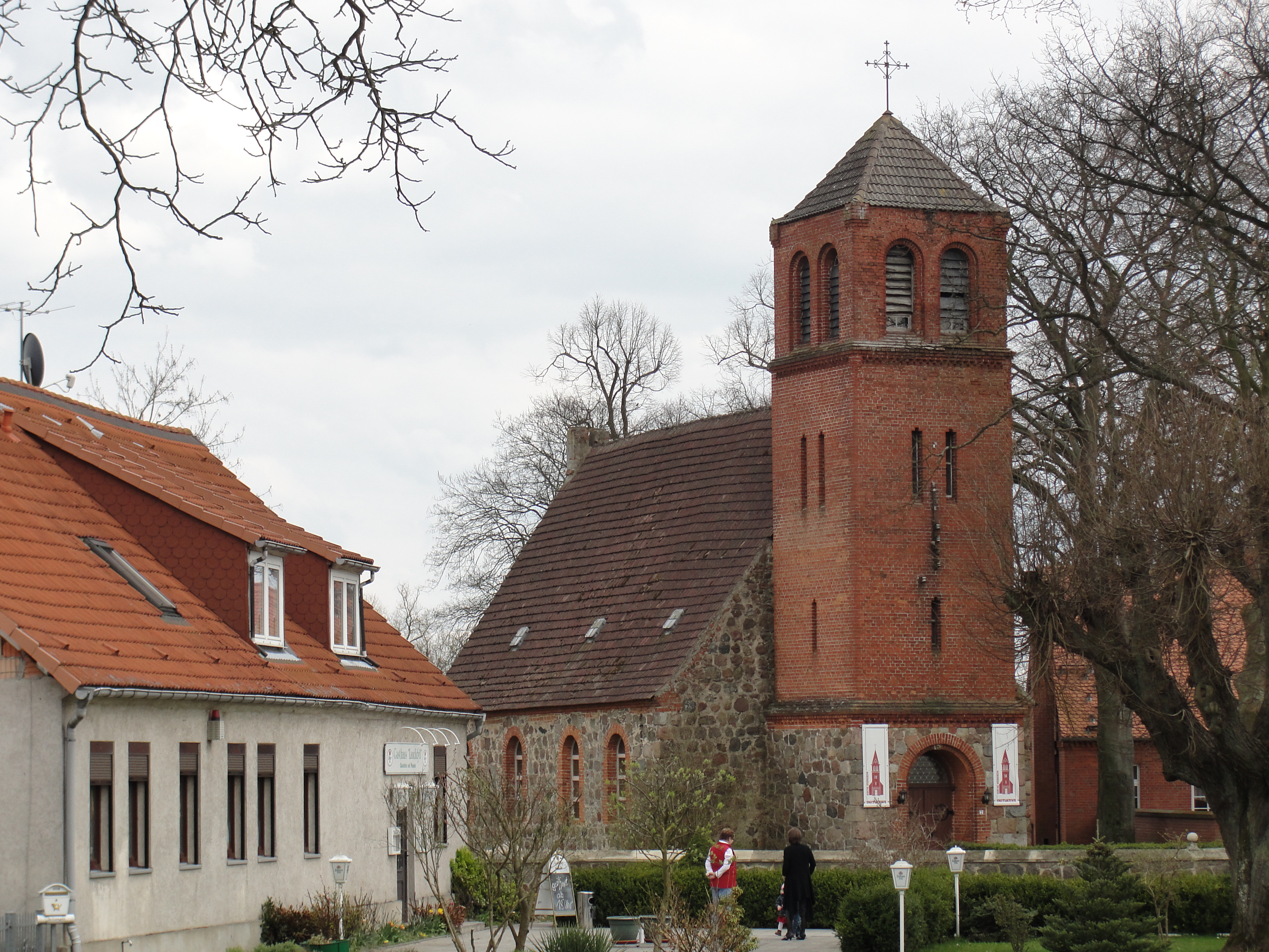 Wernikow church, Heiligengrabe municipality, Ostprignitz-Ruppin district, Brandenburg state, Germany